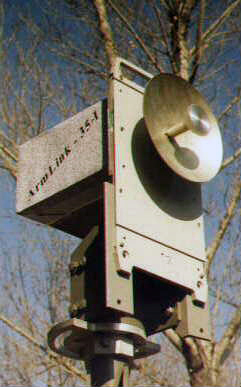 IRPhE ArmLink 35 1